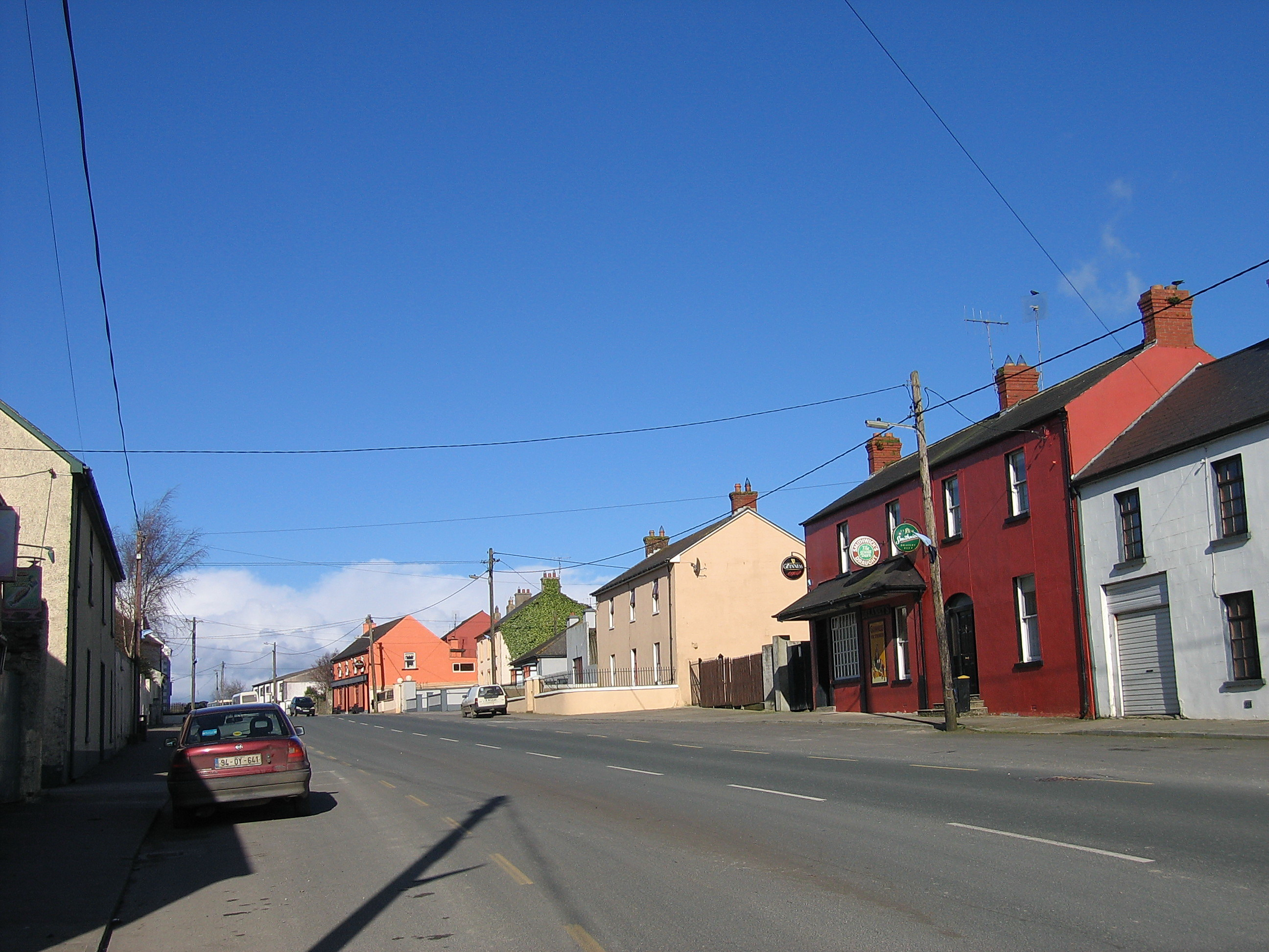 Main Street (R425 regional road) in Ballyroan, County Laois, Ireland.